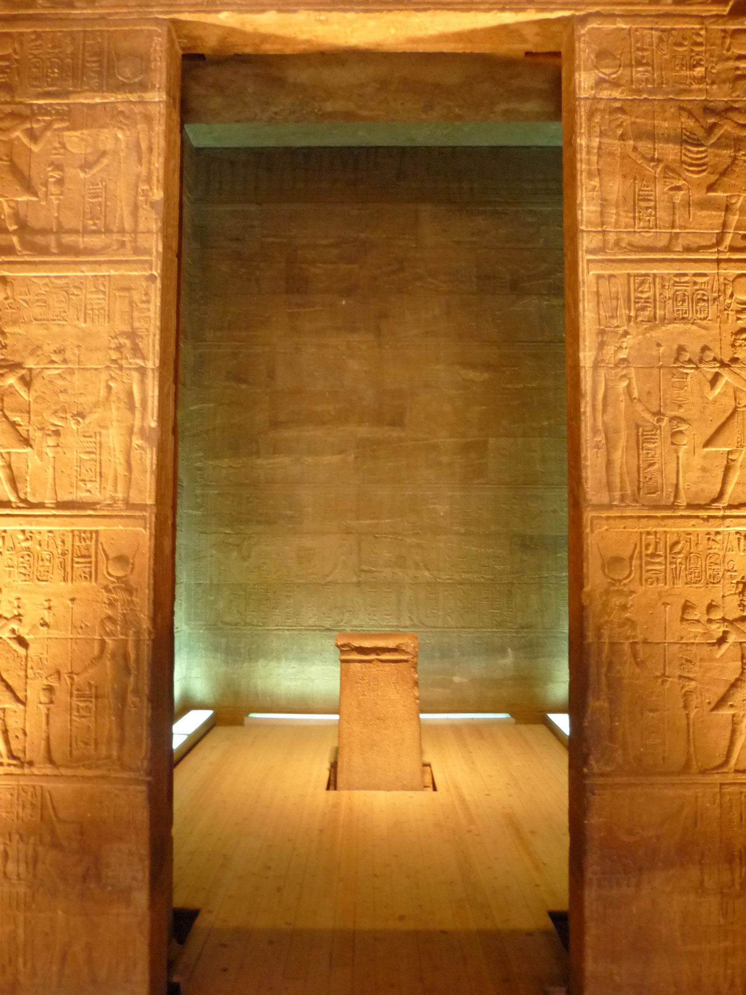 Naos, Isis Temple, Philae Island, Egypt